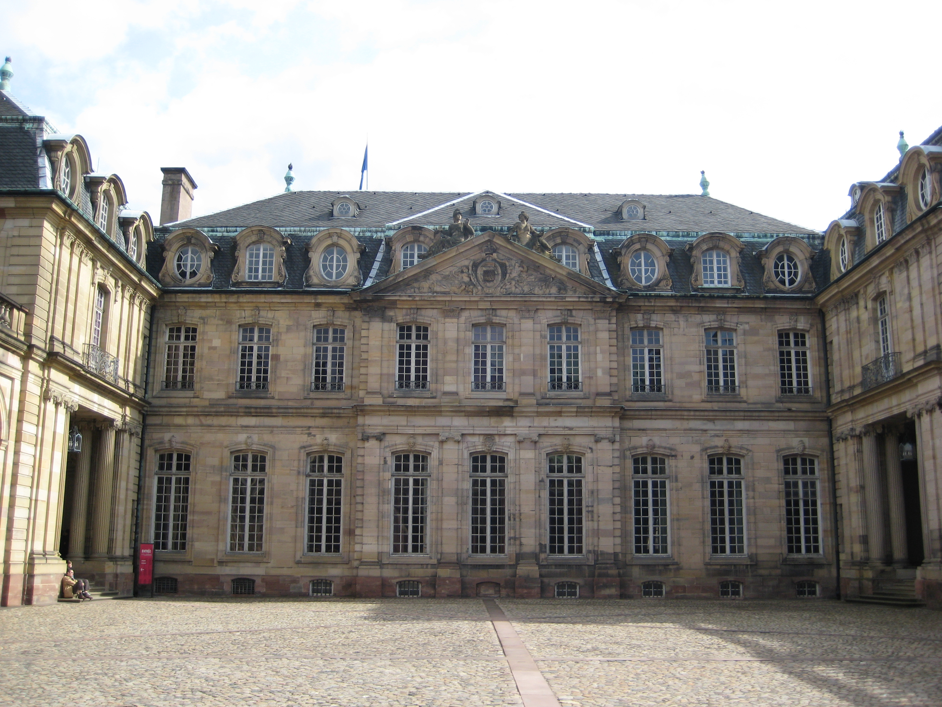 Inner Court of Palais Rohan Strasbourg France